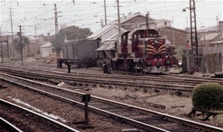 7002 and 7004 shunt the Down Goods Sidings at Rockdale